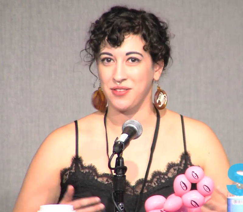 Cartoonist and illustrator Rosemary Valero-O'Connell speaking at the Small Press Expo panel "Queer Science Fiction and World Building" on September 14, 2019. Screencap taken at 43:44.